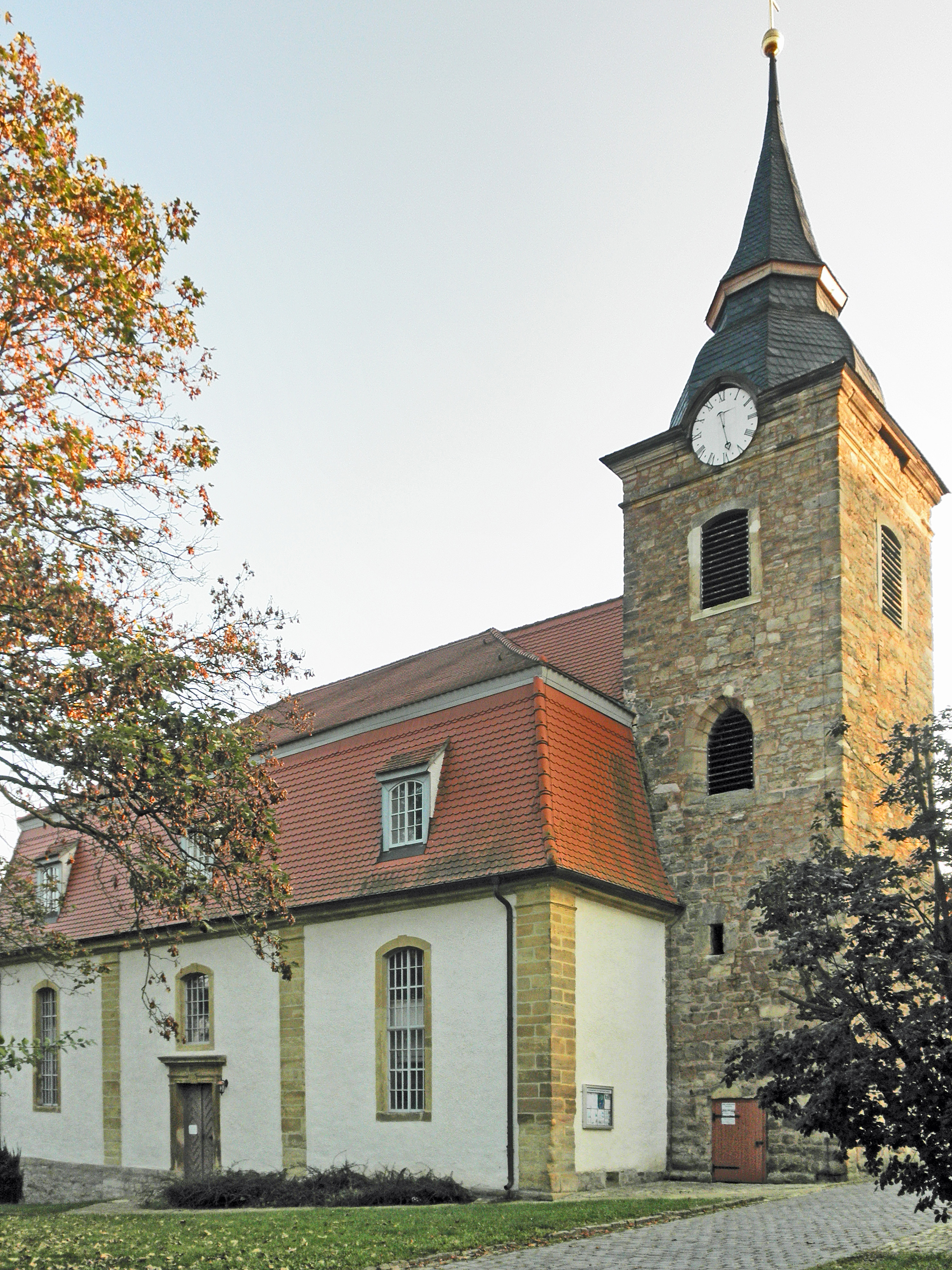 Church in Monastery Donndorf in Thuringia